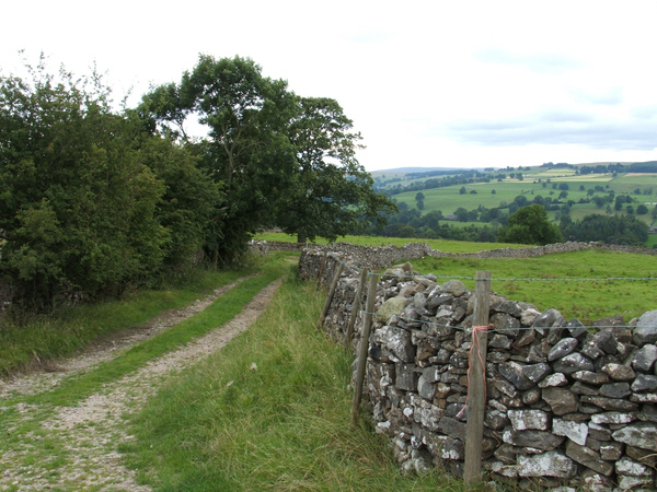 Footpath to Maulds Meaburn. Footpath from Brackenslack to the Maulds Meaburn road.